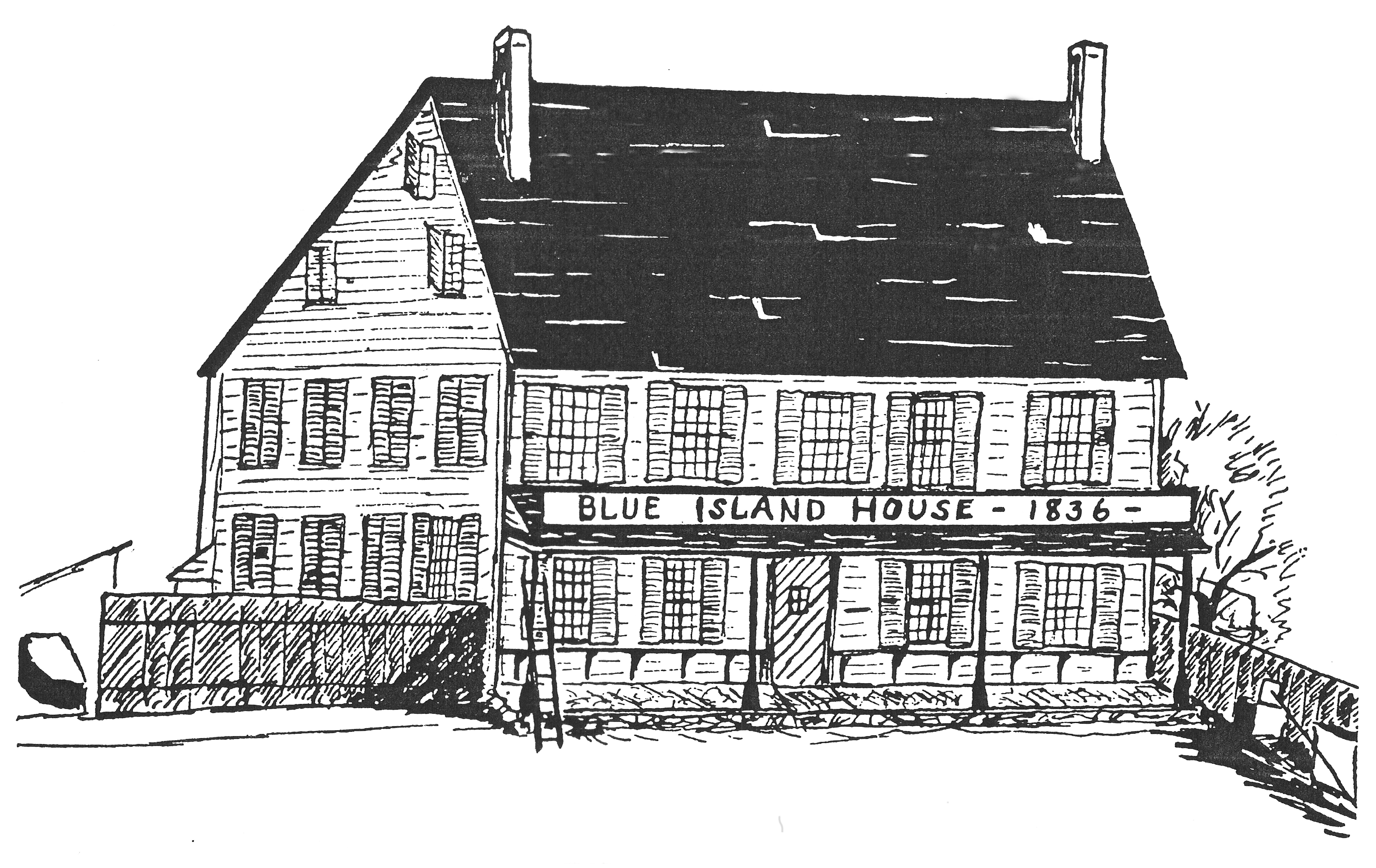 The Blue Island House inn, built 1836, destroyed by fire 1858. Reproduction of a drawing made while the building was still standing